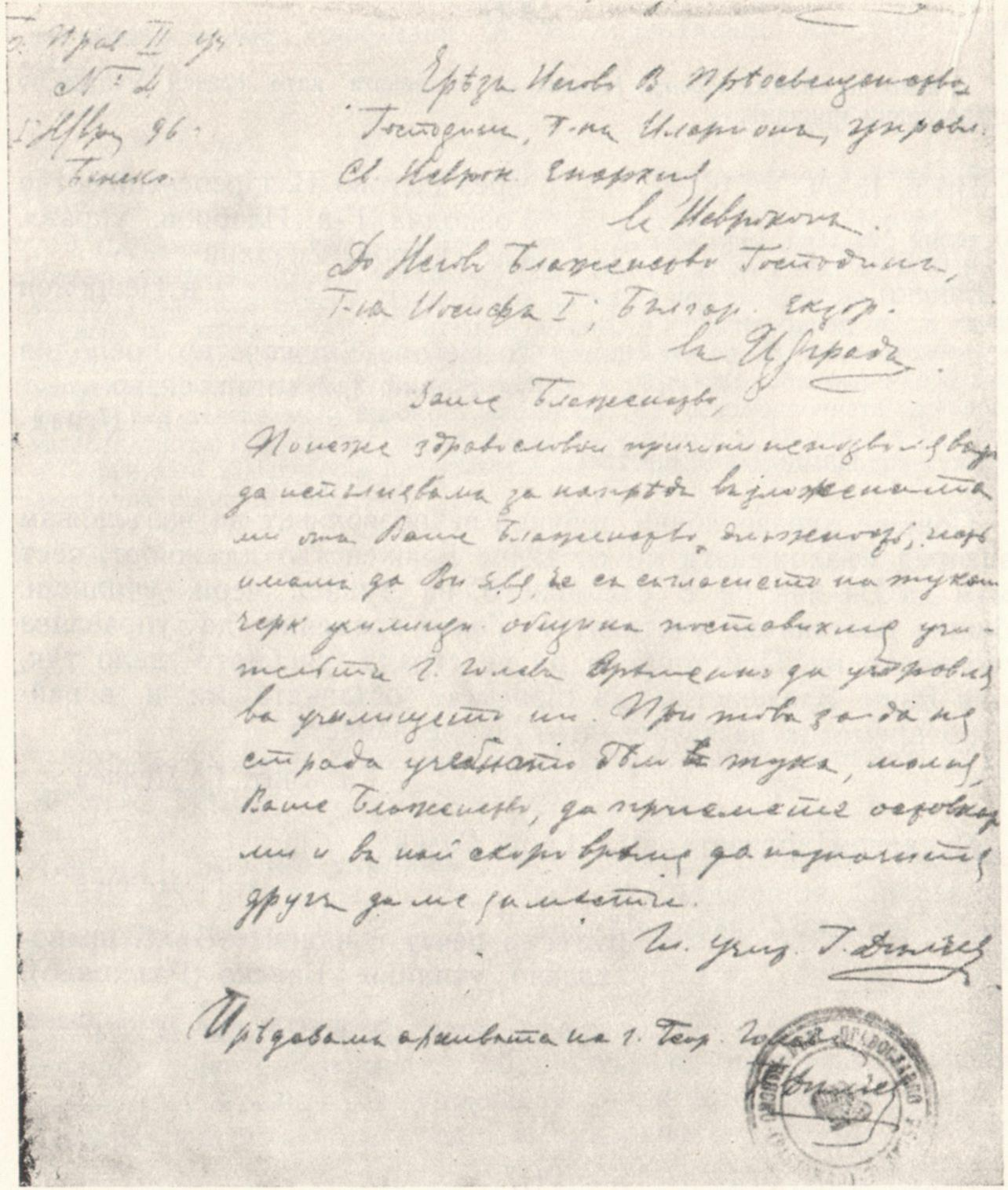 Letter of Gotse Delchev to the Bulgarian Exarch Yosif. He resigned as head teacher in Bansko for health reasons.